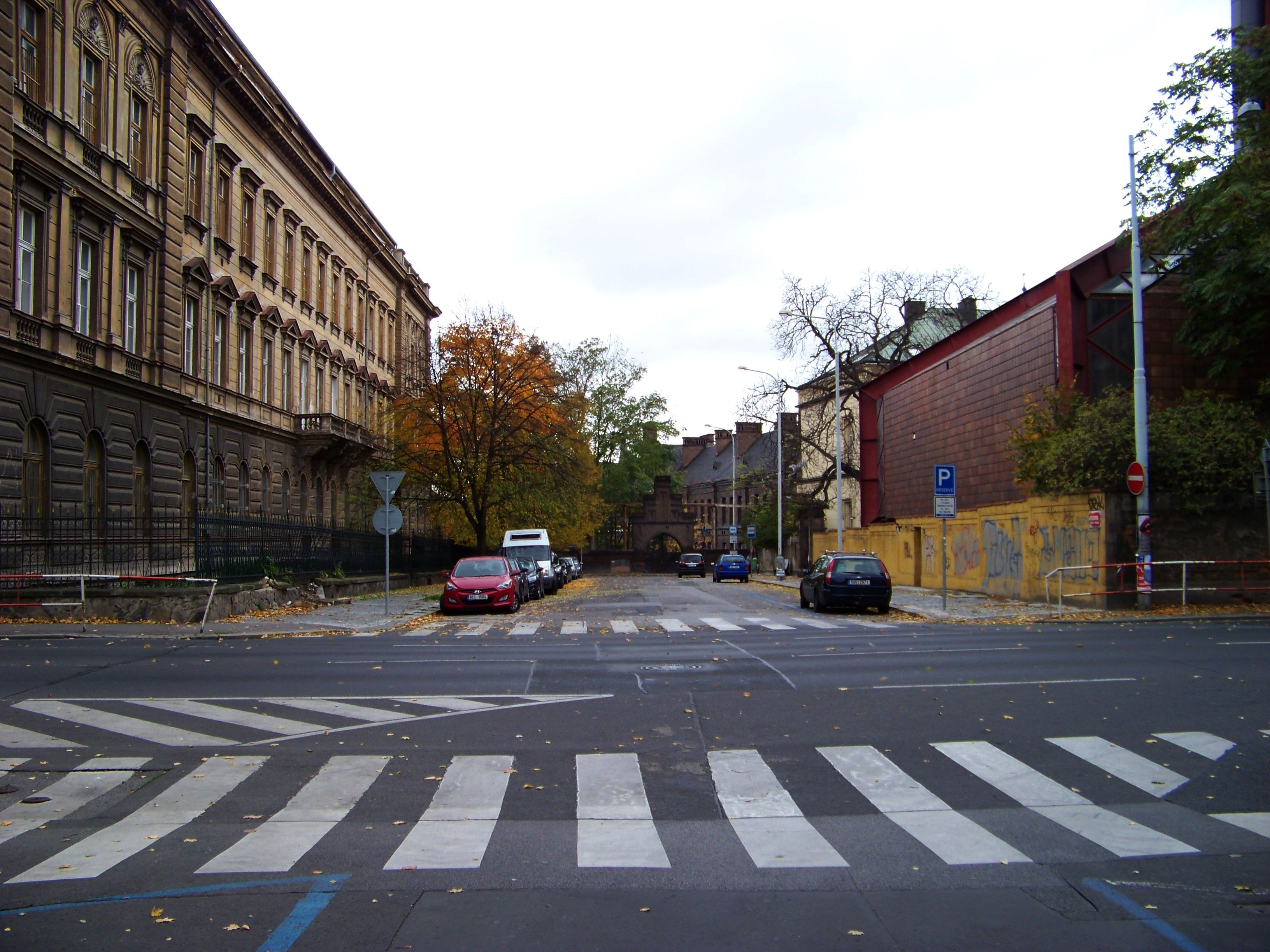 Prague-New Town, the Czech Republic. Wenzigova street.